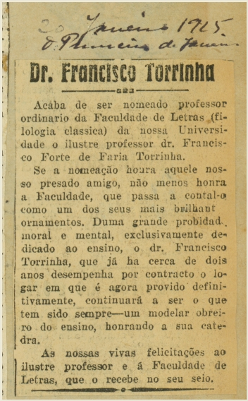 Dr. Francisco Torrinha Edição do Jornal O Primeiro de Janeiro